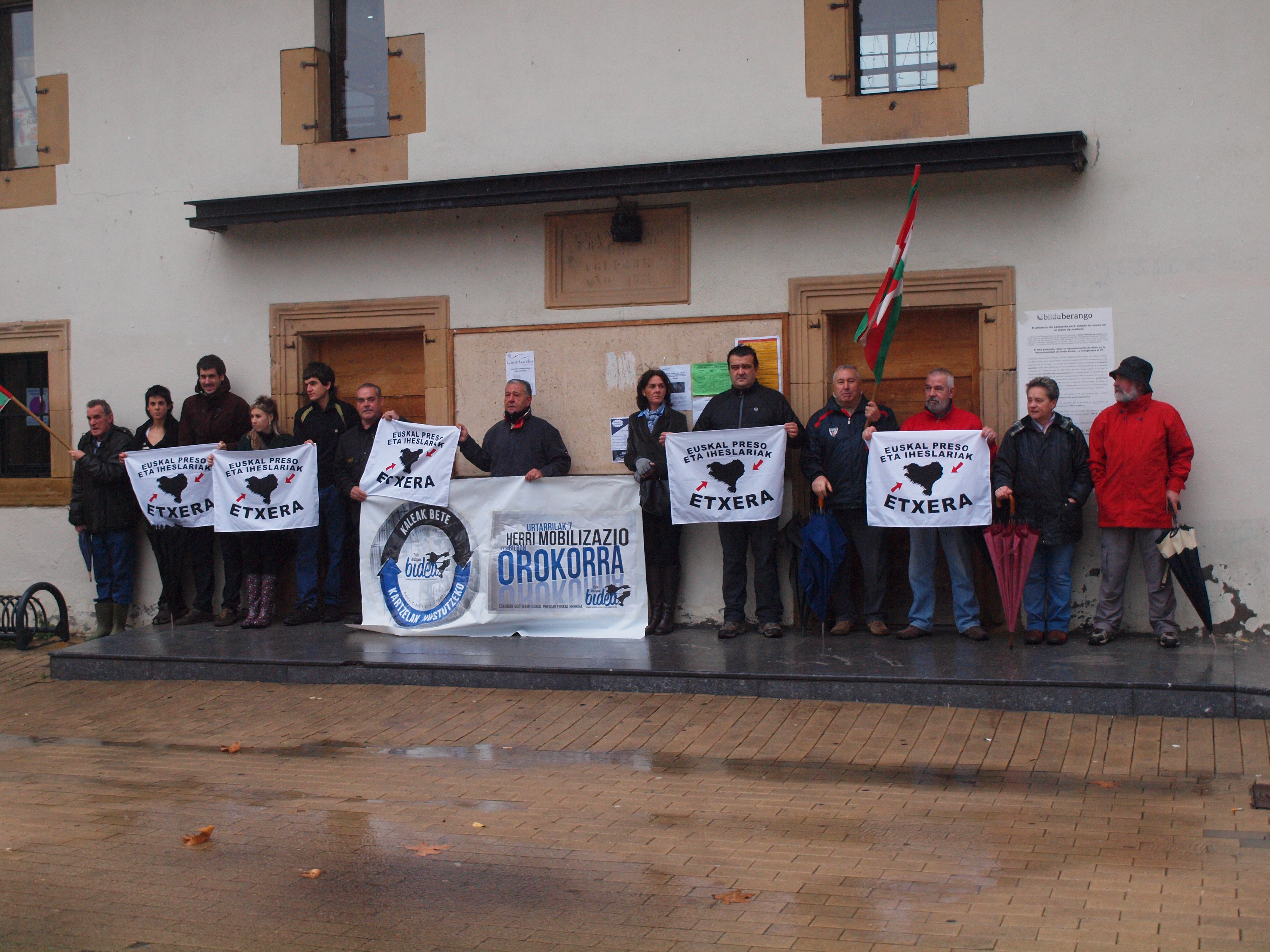 Demonstration showing support for Basque prisoners. Berango, Biscay.